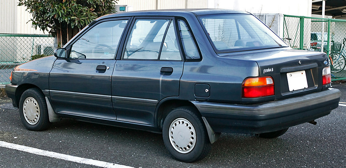 Ford Festiva β, manufactured by Kia Motors.